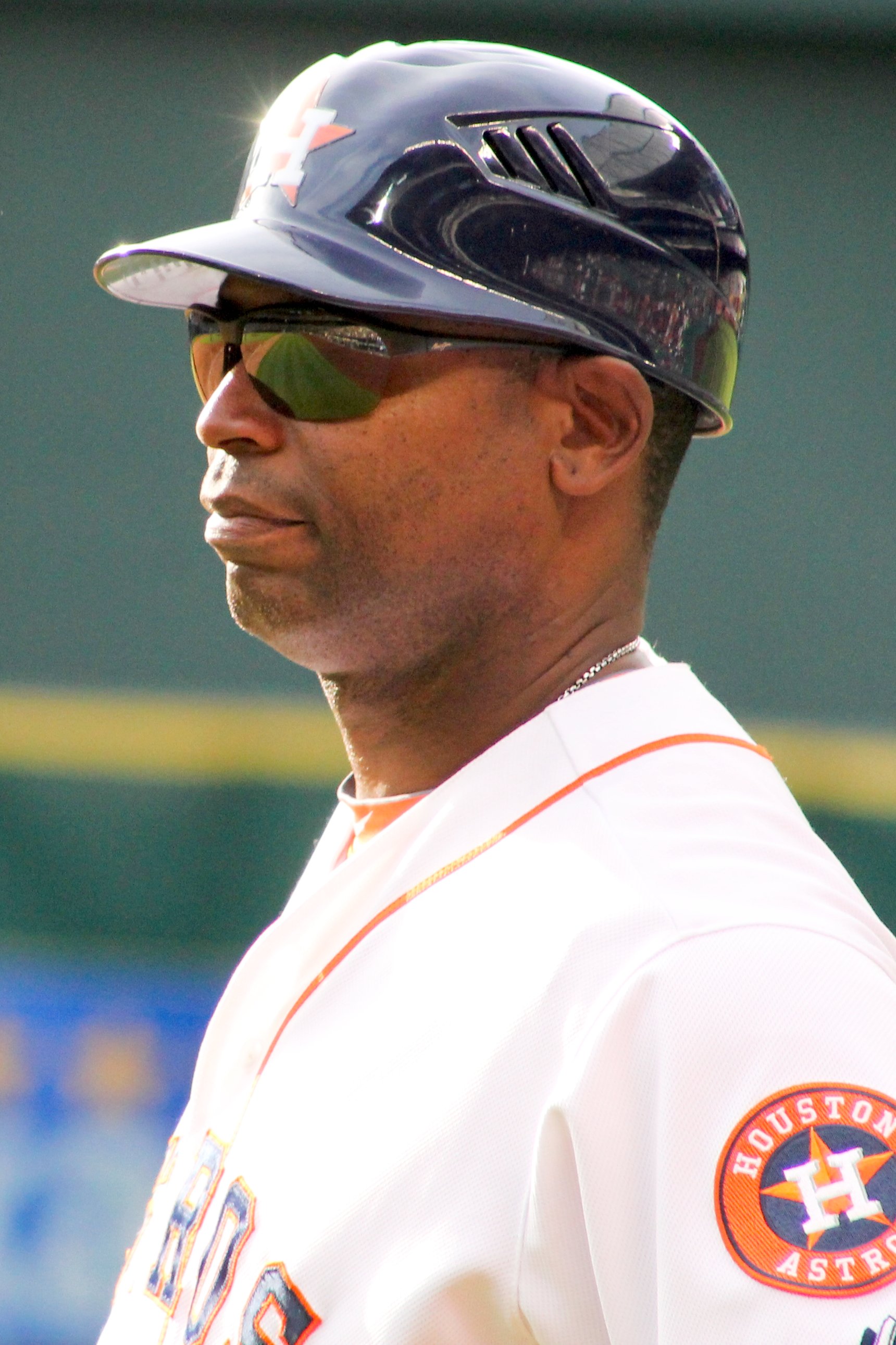 Houston Astros coach Tarrik Brock during a May 2014 game in Houston